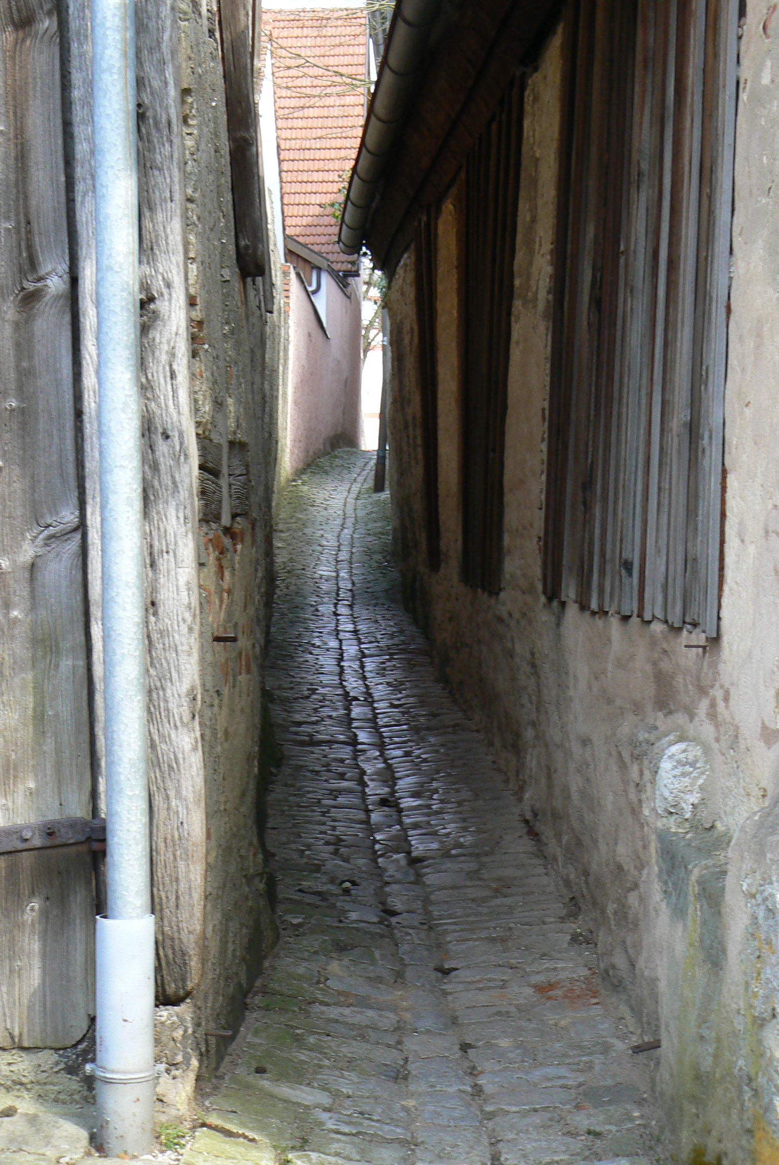 view of Hollfeld, Germany